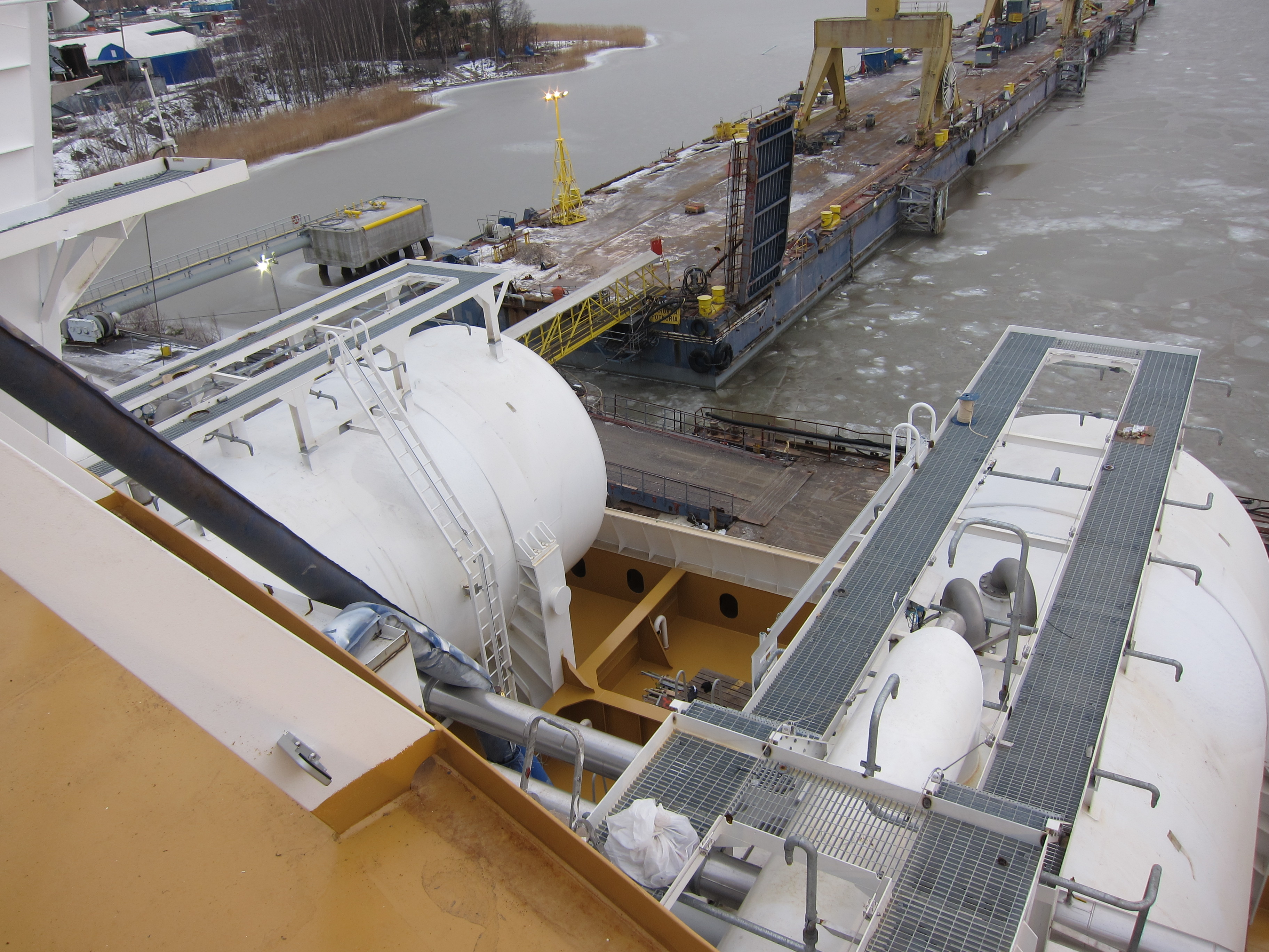 LNG tanks of cruiseferry MS Viking Grace owned and operated by Finnish shipping company Viking Line Abp. The LNG tanks are located outdoors on the rear deck. Viking Grace is the world's first large passenger ship that uses liquefied natural gas (LNG) as its fuel. At the time the picture was taken the ship was under construction at STX Finland Oy, Turku, Finland.